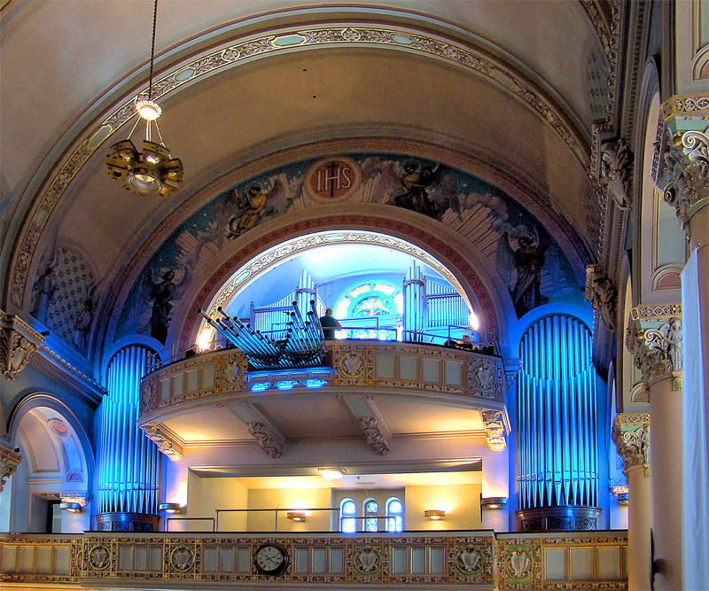 Church of Saints-Anges Gardiens, Lachine, Quebec, Canada. The Casavant Frères organ, lit in blue during the National Holiday of Quebec.